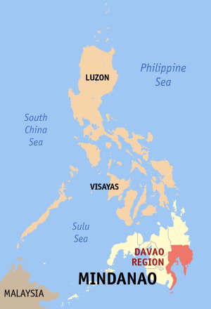 Location map of the Davao Region in the southern Philippines. Within the Mindanao islands group super-region.